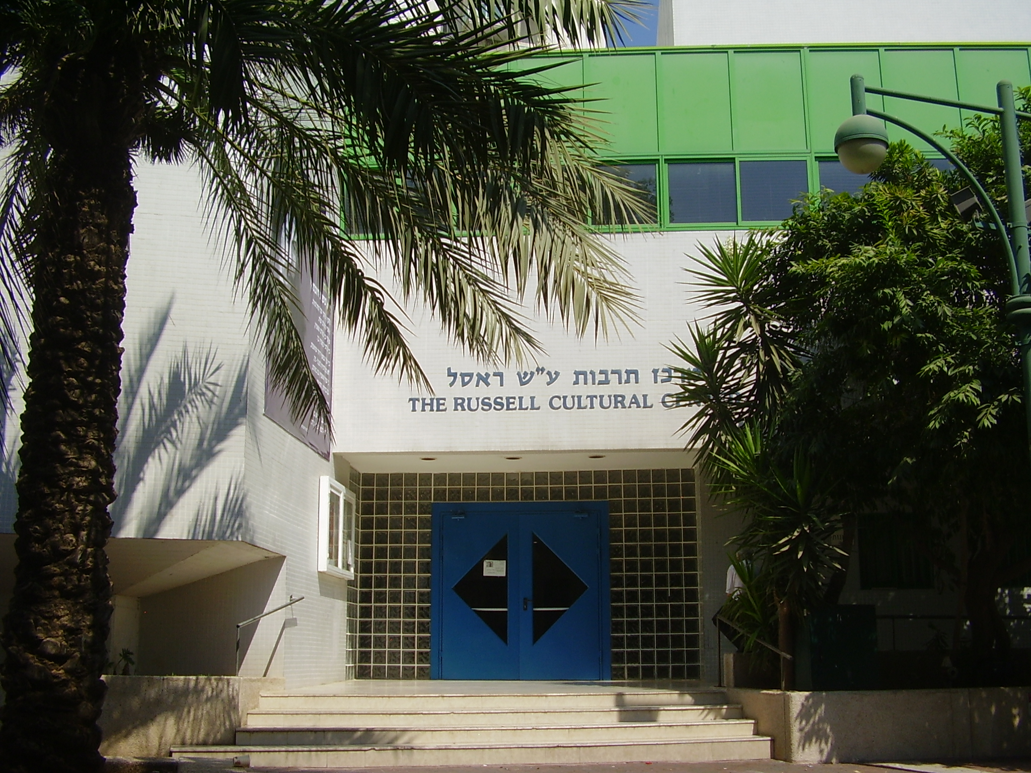 russell cultural center in ramat amidar, israel מרכז תרבות ע"ש ראסל ברמת עמידר, רמת גן